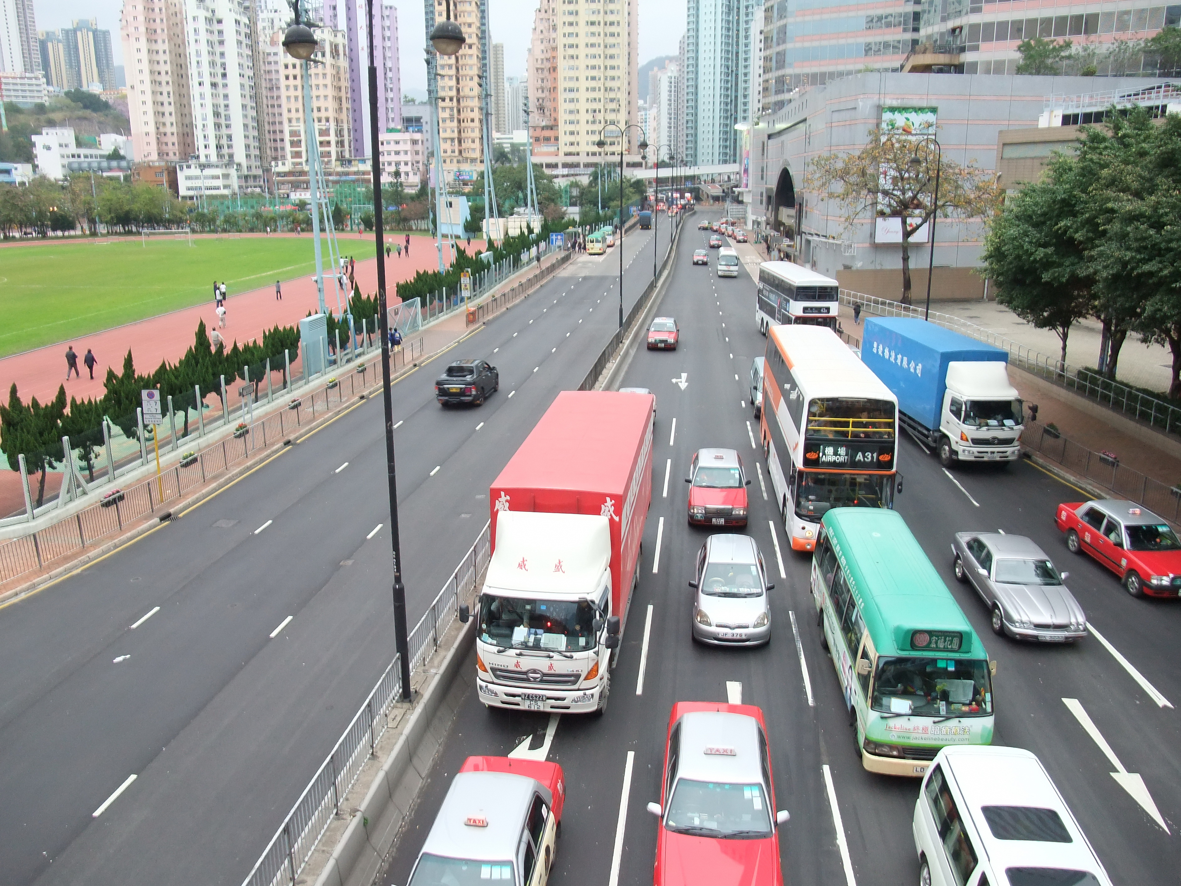 Hing Fong Road, Kwai Tsing District, Hong Kong.中文（香港）: 位於香港葵青區的「興芳路」。右方為「新都會廣場」，左方為「葵涌運動場」。